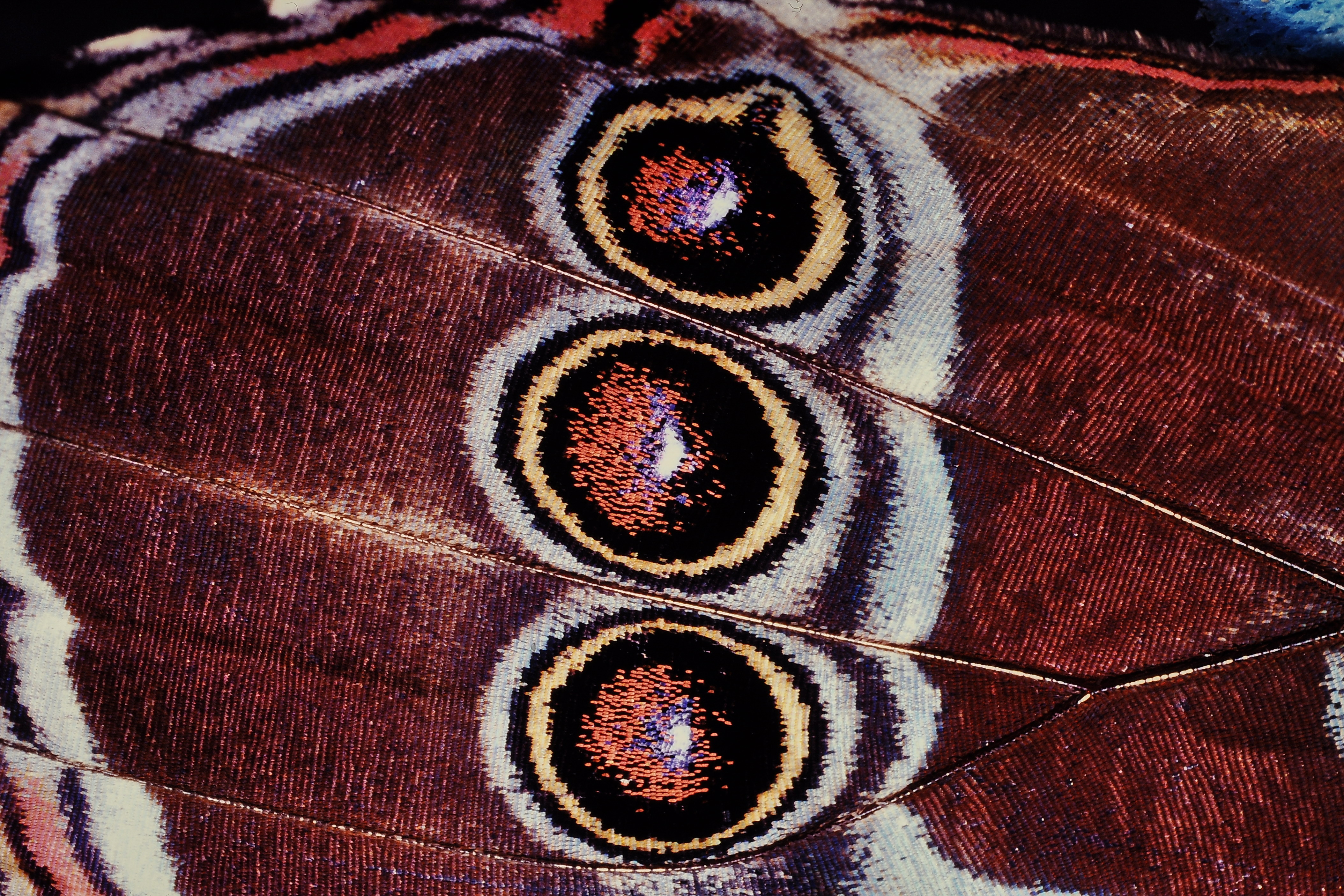 Wing of a butterfly, detail. Freehand snapshot of a living insect with NIKON F4 and NIKON macrolens 1:2,8/105mm working at step 8-11, Kodak slidefilm 100 ASA, JPG-converted with NIKON D90 and NIKON macrolens 1:2,8/60mm